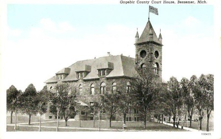 Gogebic County Courthouse, Bessemer MI. Romanesque revival architecture.